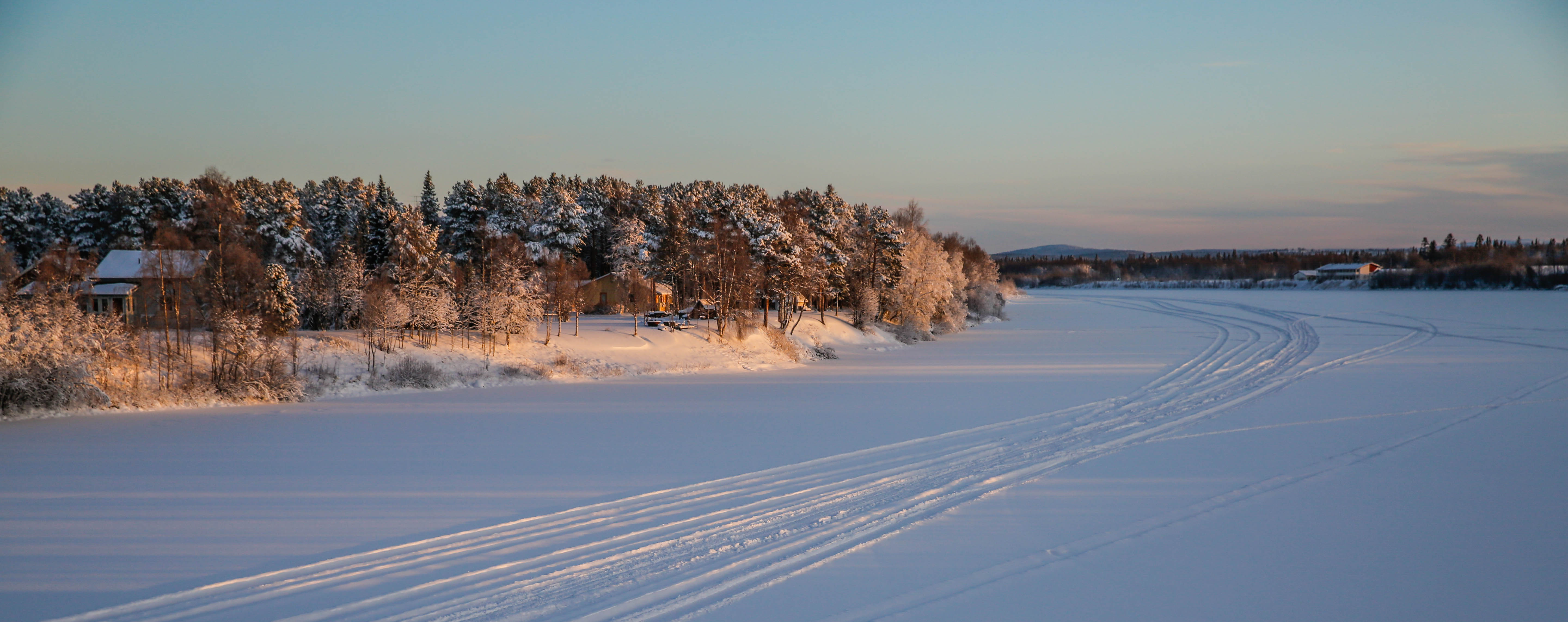 River Ivalojoki in Ivalo, Inari, Finland.